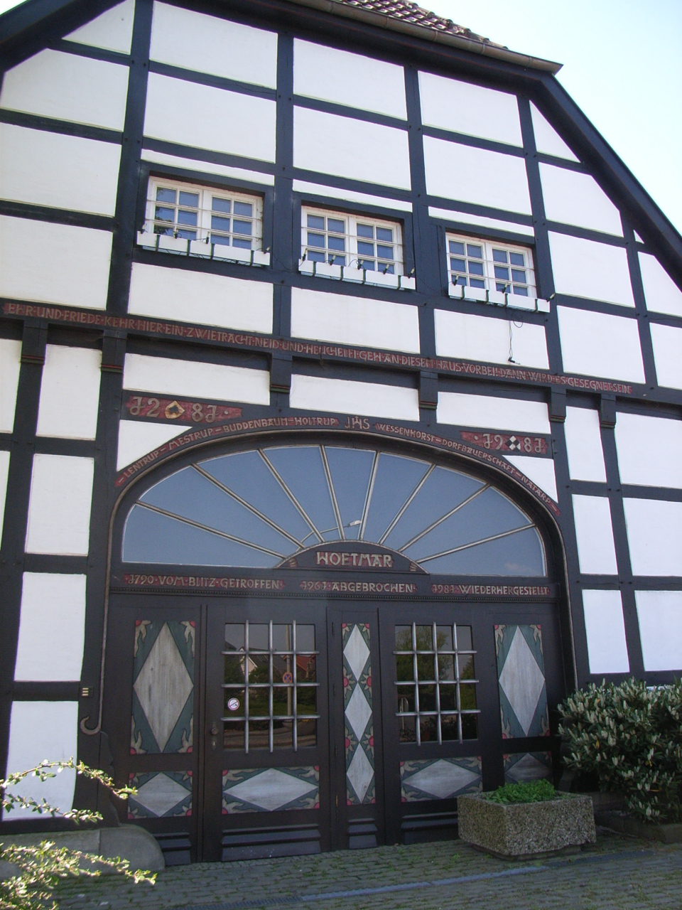 The parish house in Hoetmar, Germany. Originally built in 1287. In 1987 rebuilt and renovated.